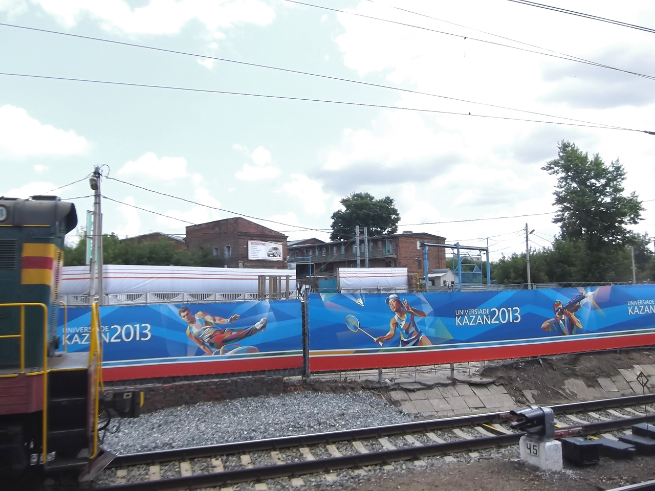 streets playbill about sports on 2013 Summer Universiade in Kazan